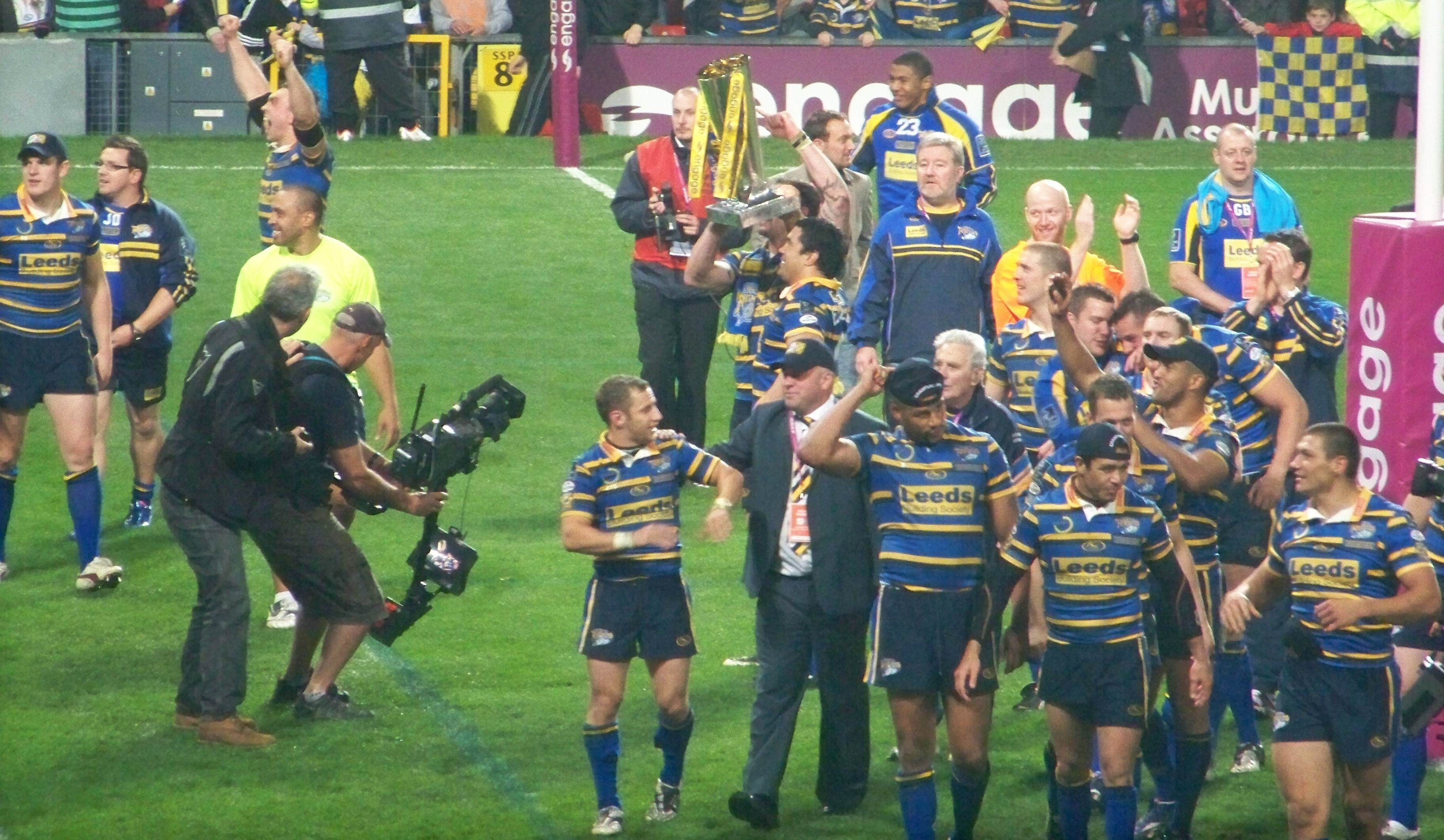 Leeds Rhinos celebrate their 2009 Super League Grand Final Victory, after becoming the first side to win three consecutive Grand Finals. Taken at the game on the night of Saturday the 10th of October 2009.